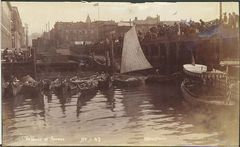 Original title: "Waterfront, with moored Indian canoes, Seattle, Washington, ca. 1892" Washington Street end, boat launch, w/ small steam launch, small sailboats, a crowd on pier. Physical description: [not provided, looks like a from a damaged paper print]